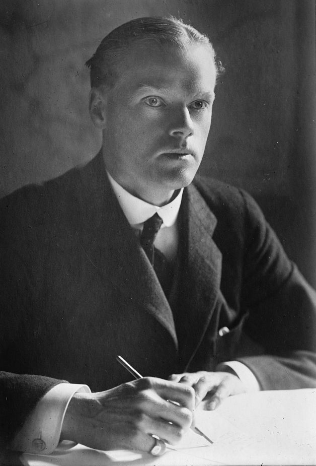 Bain News Service,, publisher. George Sutherland-Leveson-Gower [between ca. 1910 and ca. 1915] 1 negative : glass ; 5 x 7 in. or smaller. Notes: Title from unverified data provided by the Bain News Service on the negatives or caption cards. Forms part of: George Grantham Bain Collection (Library of Congress). Format: Glass negatives. Repository: Library of Congress, Prints and Photographs Division, Washington, D.C. 20540 USA, General information about the Bain Collection is available at Persistent URL: Call Number: LC-B2- 3005-5